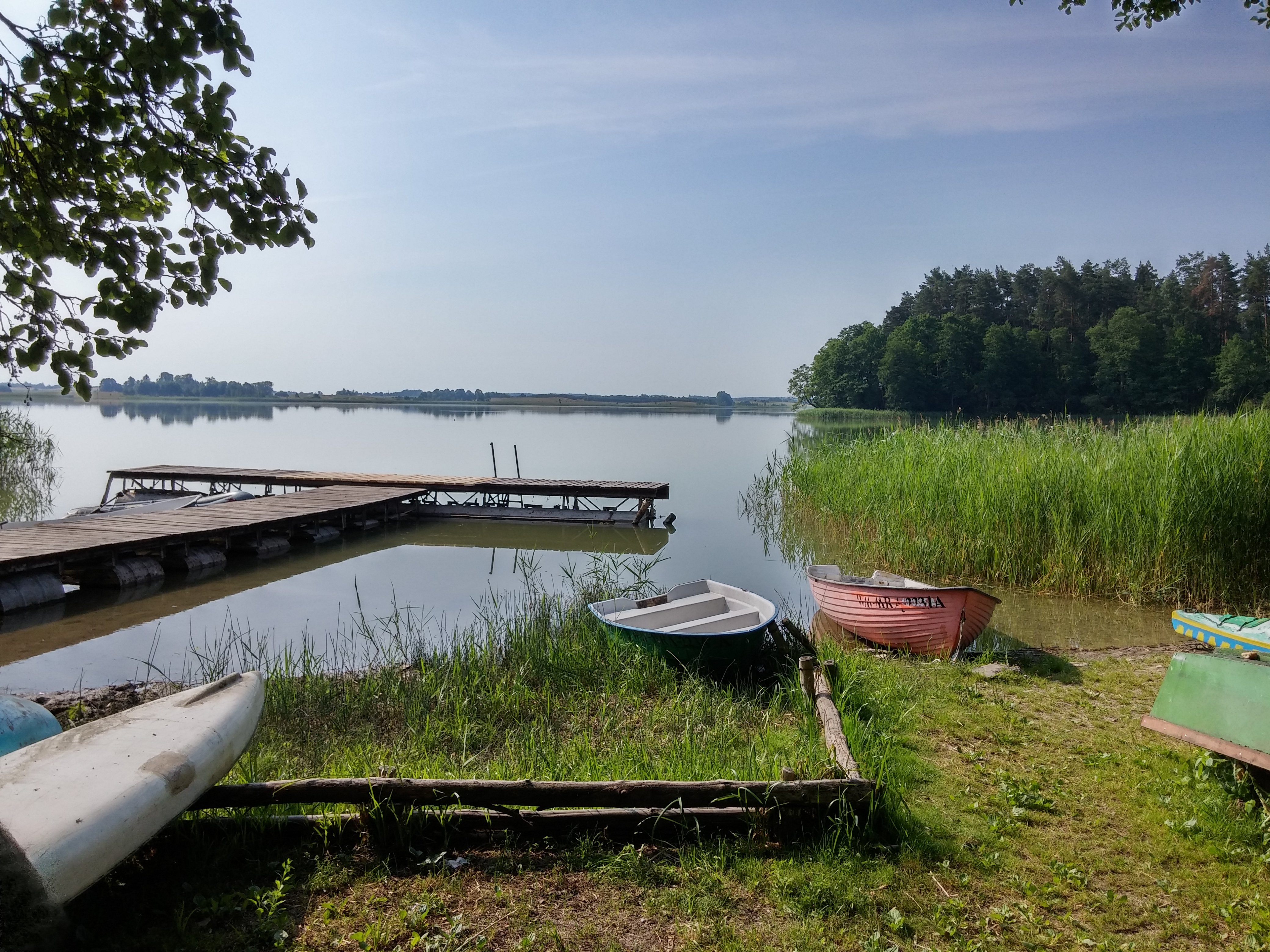 Boathouse in Bieński